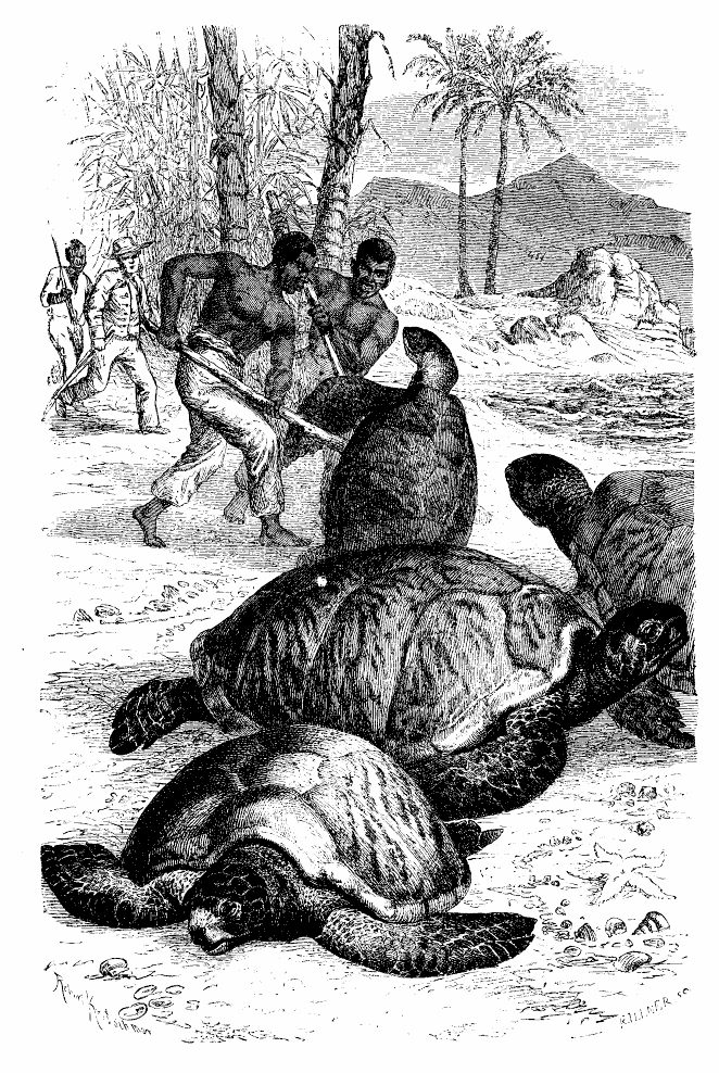 Chelonia mydas, hunting